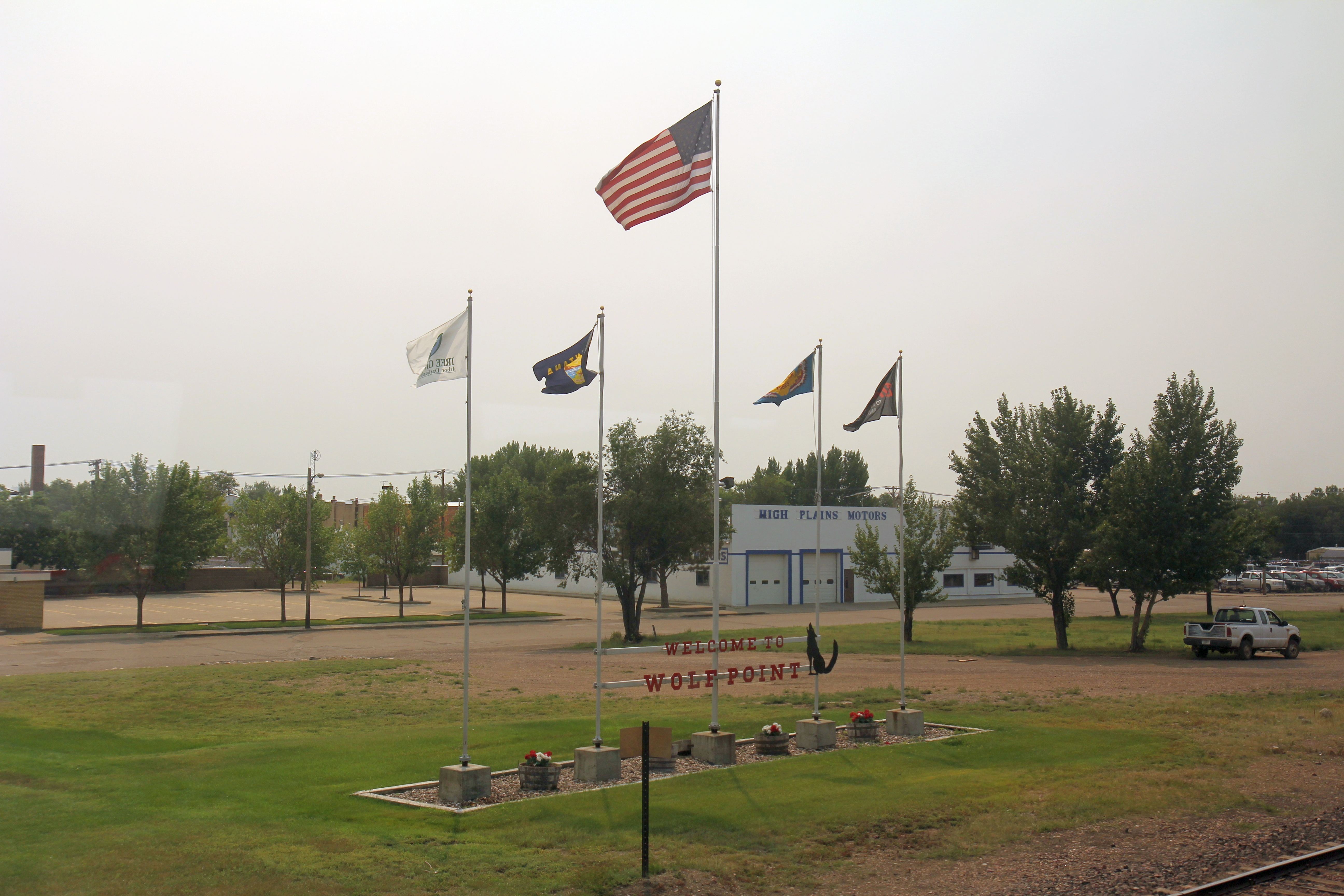 A park in Wolf Point, Montana.